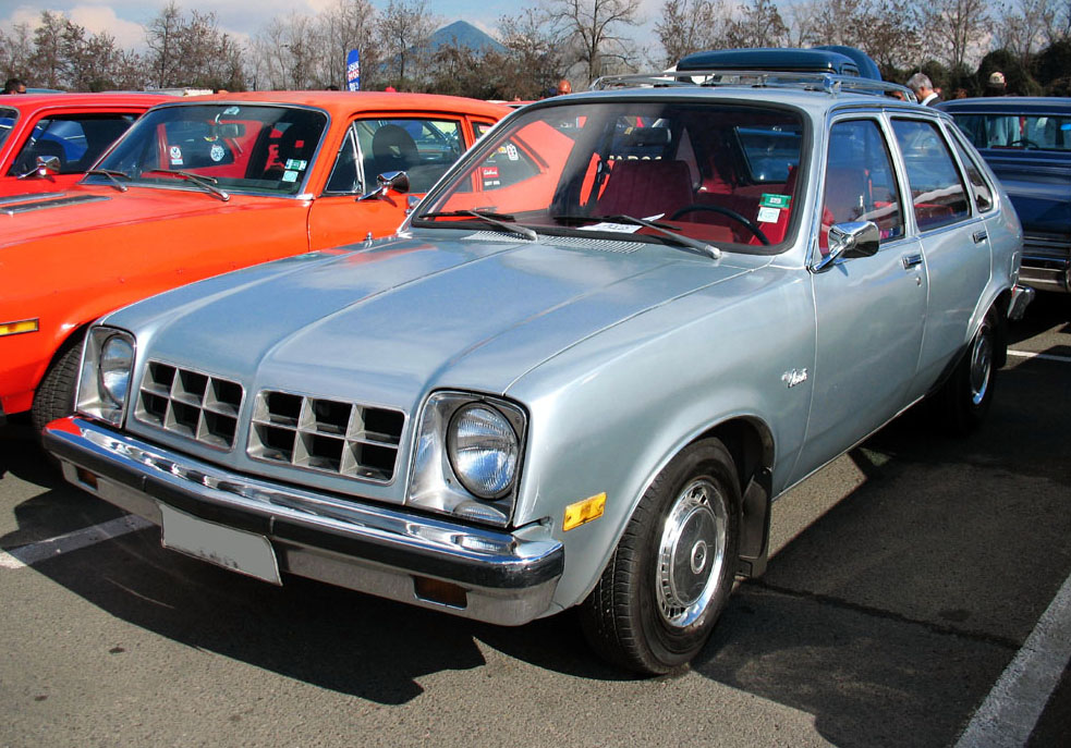 1978 Chevrolet Chevette 1600 Hatchback